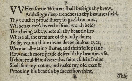 Sonnet 2 as it appeared in the 1609 first edition of Shakespeare's sonnets.